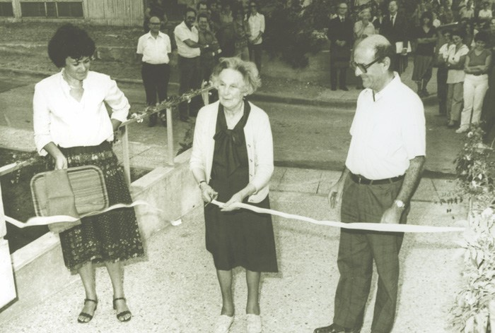 טקס הנחת אבן הפינה של האוניברסיטה הפתוחה